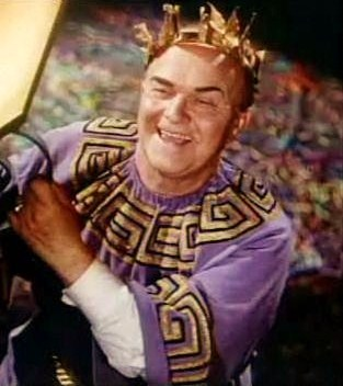 Victor Moore in Louisiana Purchase - trailer (cropped screenshot)